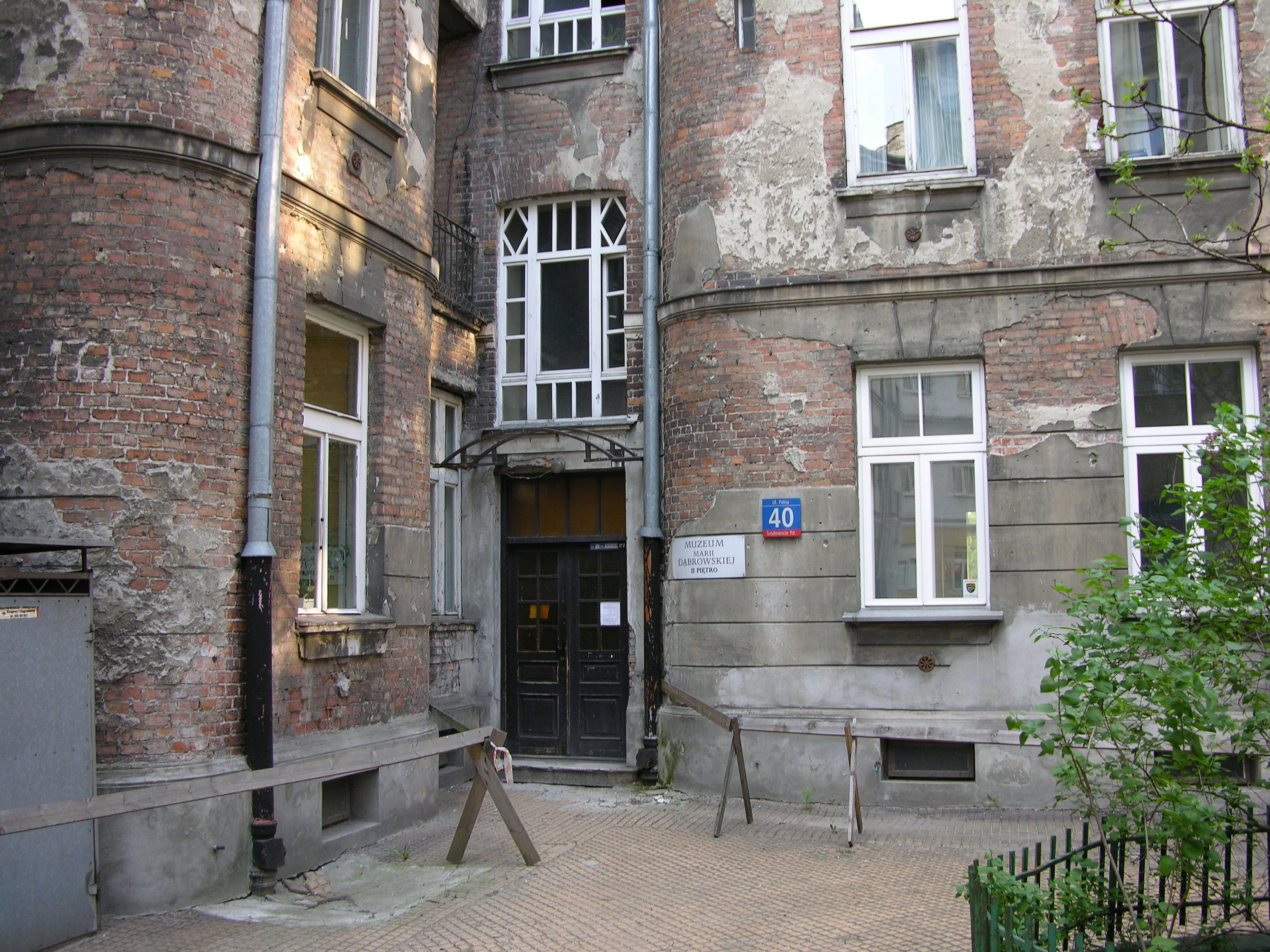 Maria Dąbrowska Muzeum in Warsaw